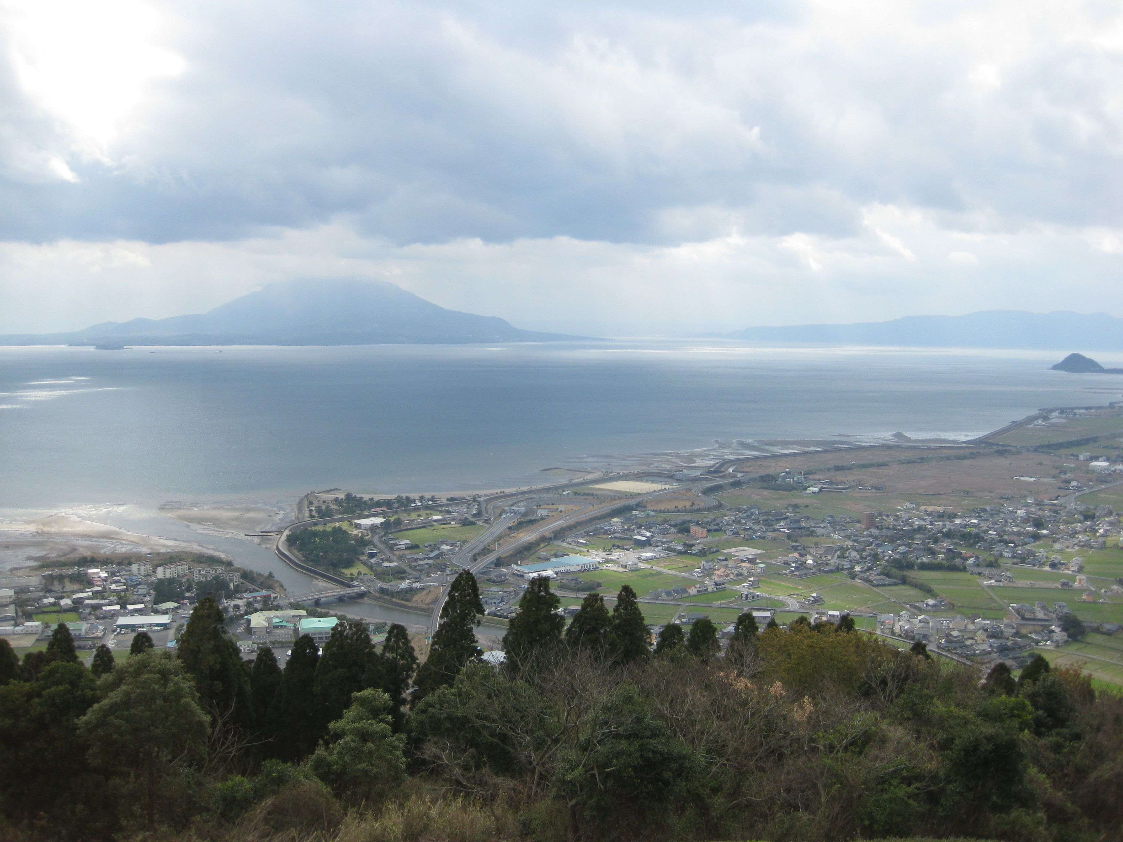 Kagoshima Bay as seen from the Kokubu Hi-Tech Observation Deck in Kirishima, Kagoshima.